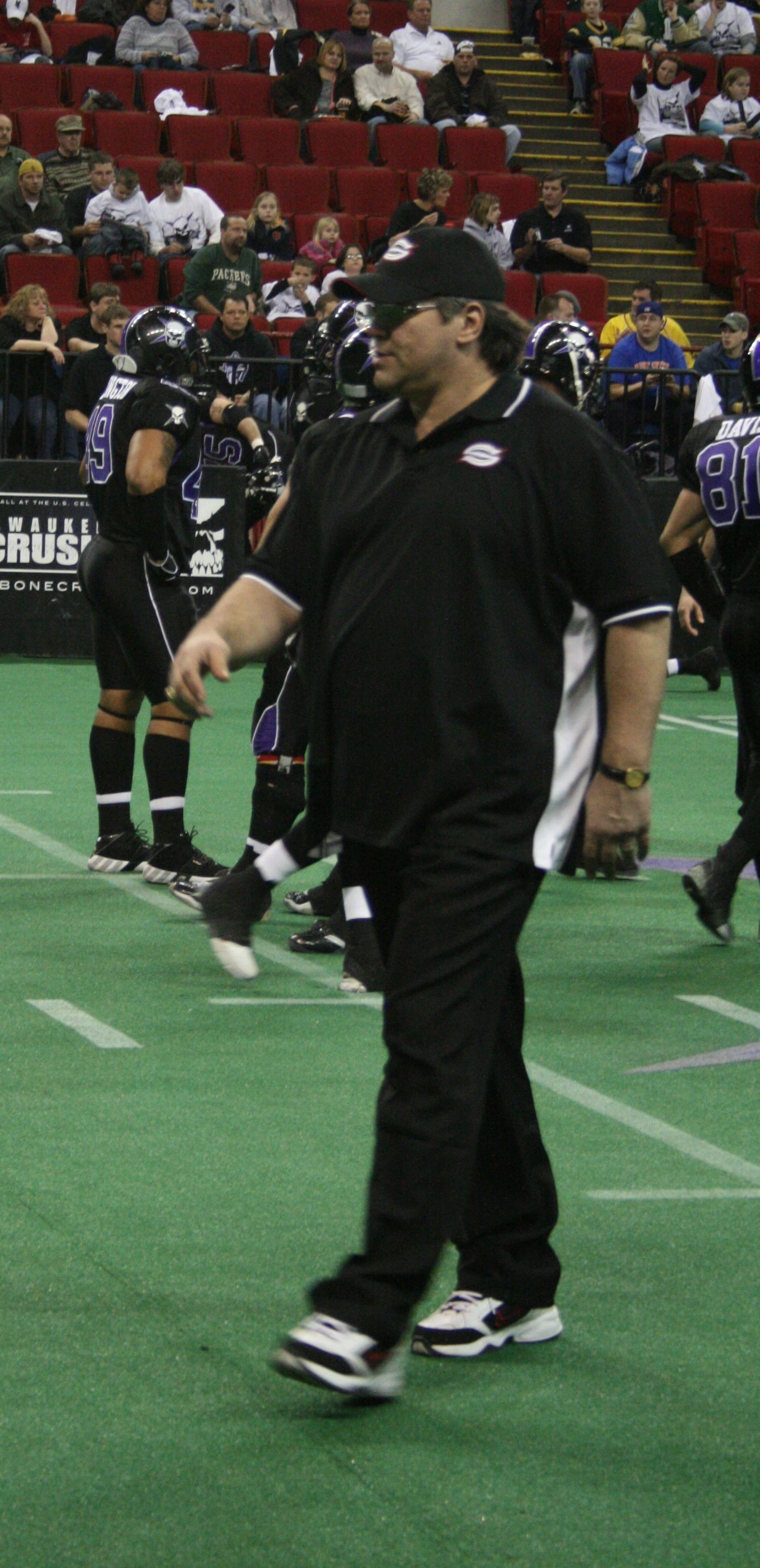 Cropped version of former Chicago Bear Steve Mongo McMichael.